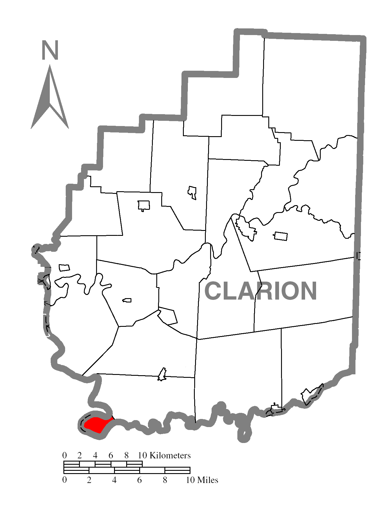 A map of Clarion County showing Brady Township, Pennsylvania (alternate) highlighted on the map.